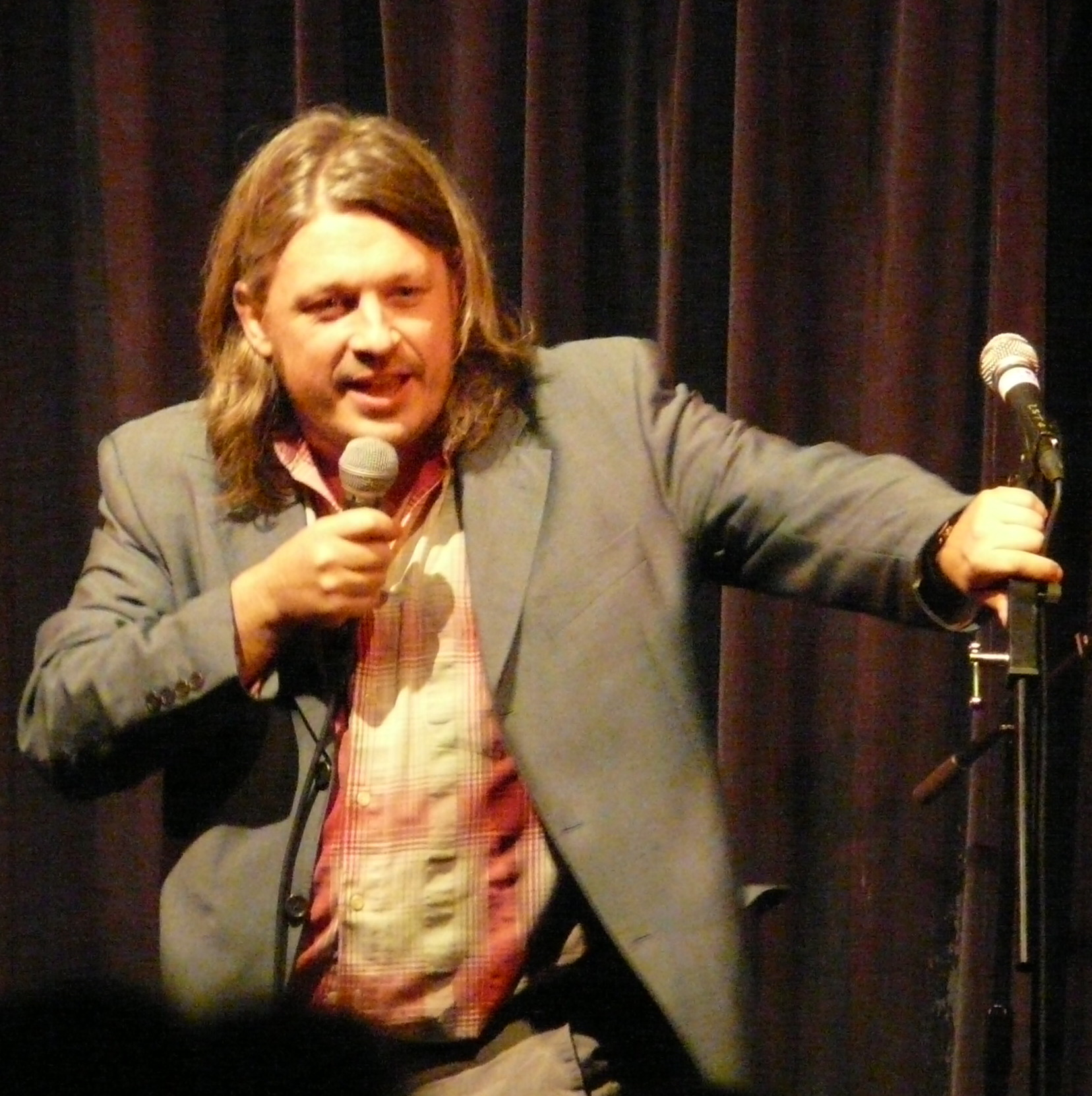 The Last 'As it Occurs to me', Leicester Square Theatre, Richard Herring